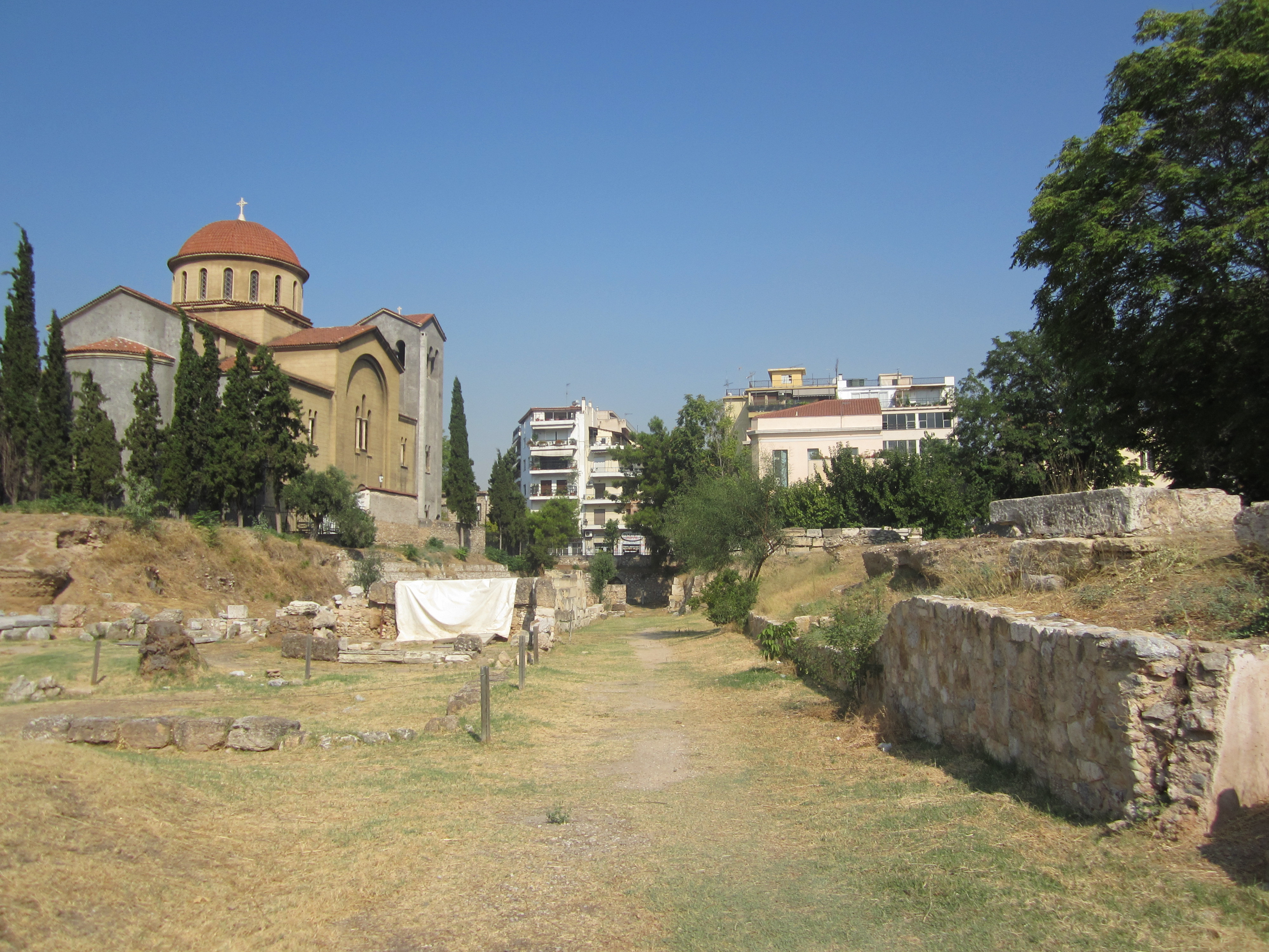 Ancient road from Kerameikos to Plato's Academy. From Kerameikos side.